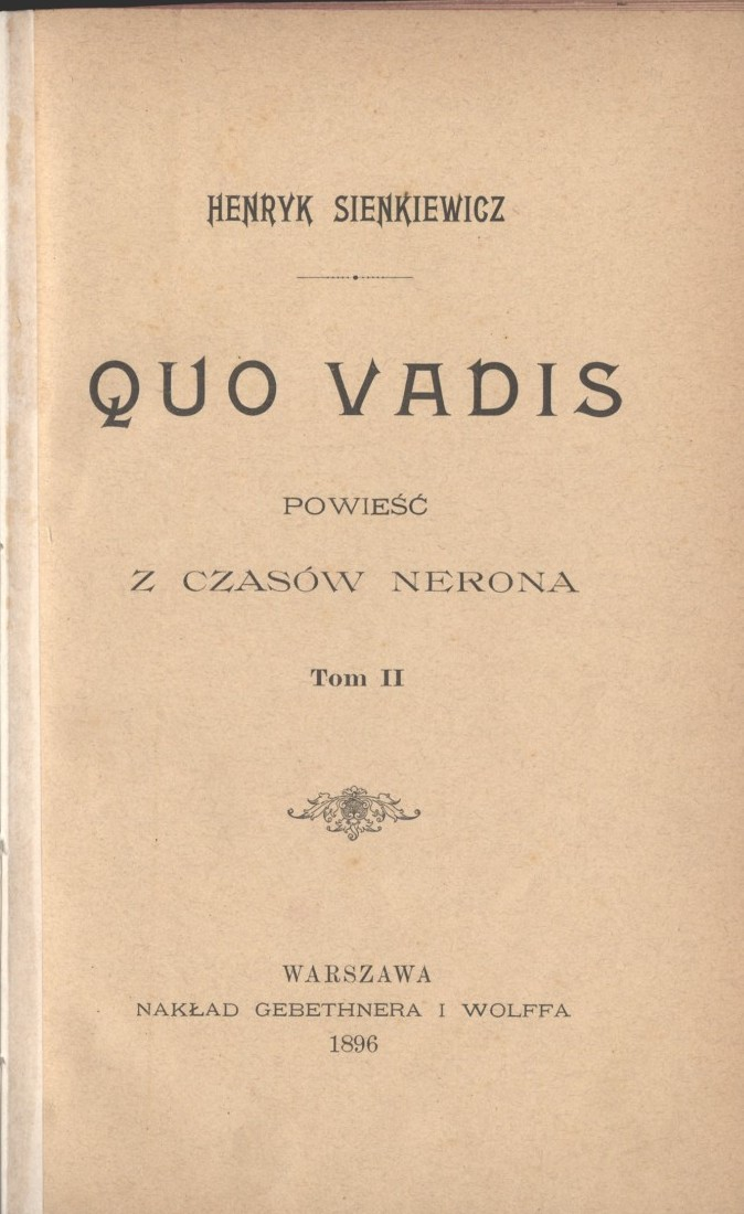 novel